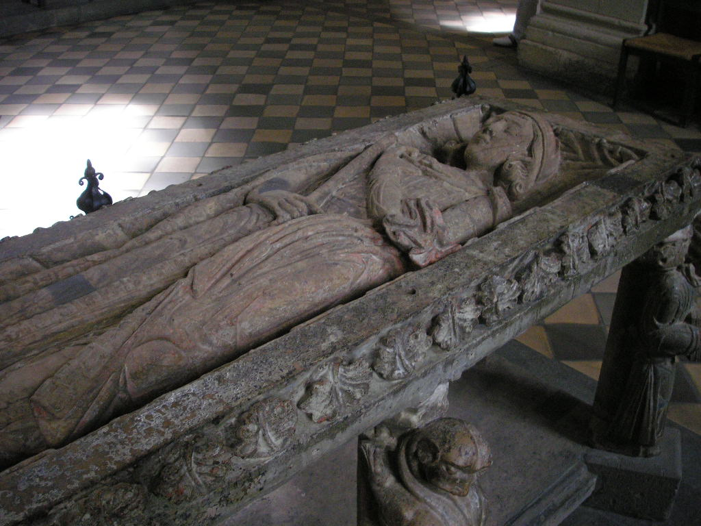 Interior of Limburg Cathedral